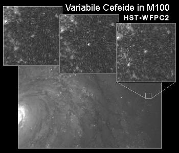 italian translation of image Image:M100 cepeid.jpg